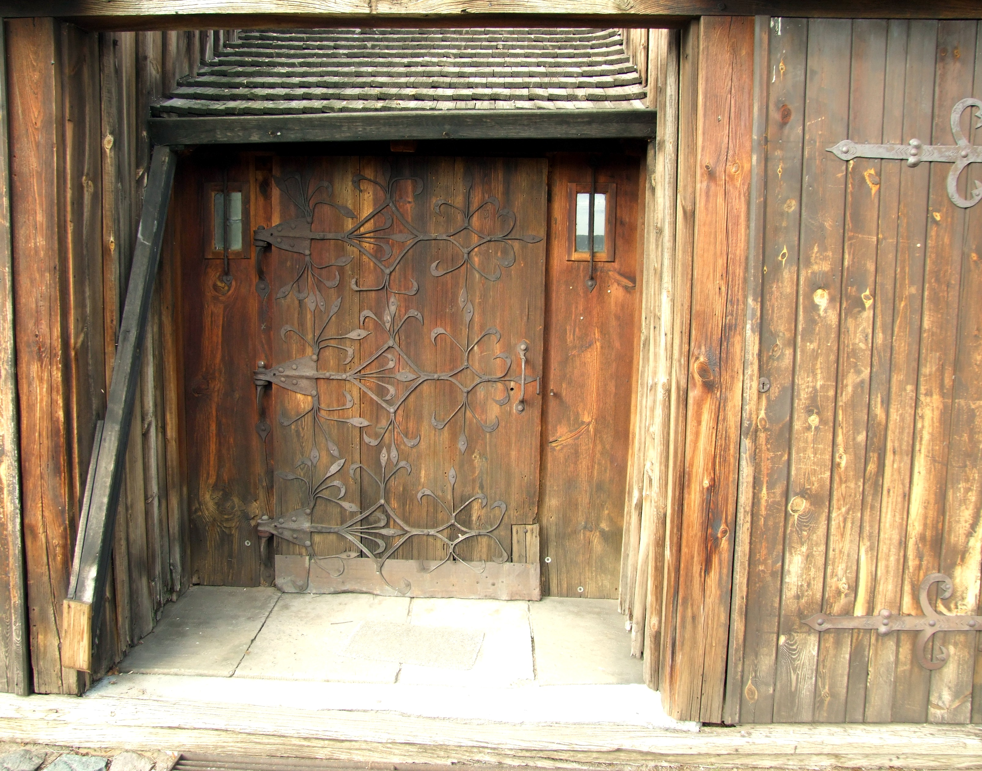 The door of the 17th century church in Klępsk, Poland Author: Mohylek 12:33, 24 October 2006 (UTC)